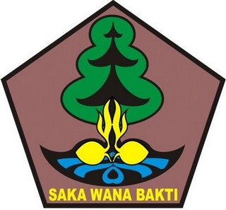 logo saka wana bakti